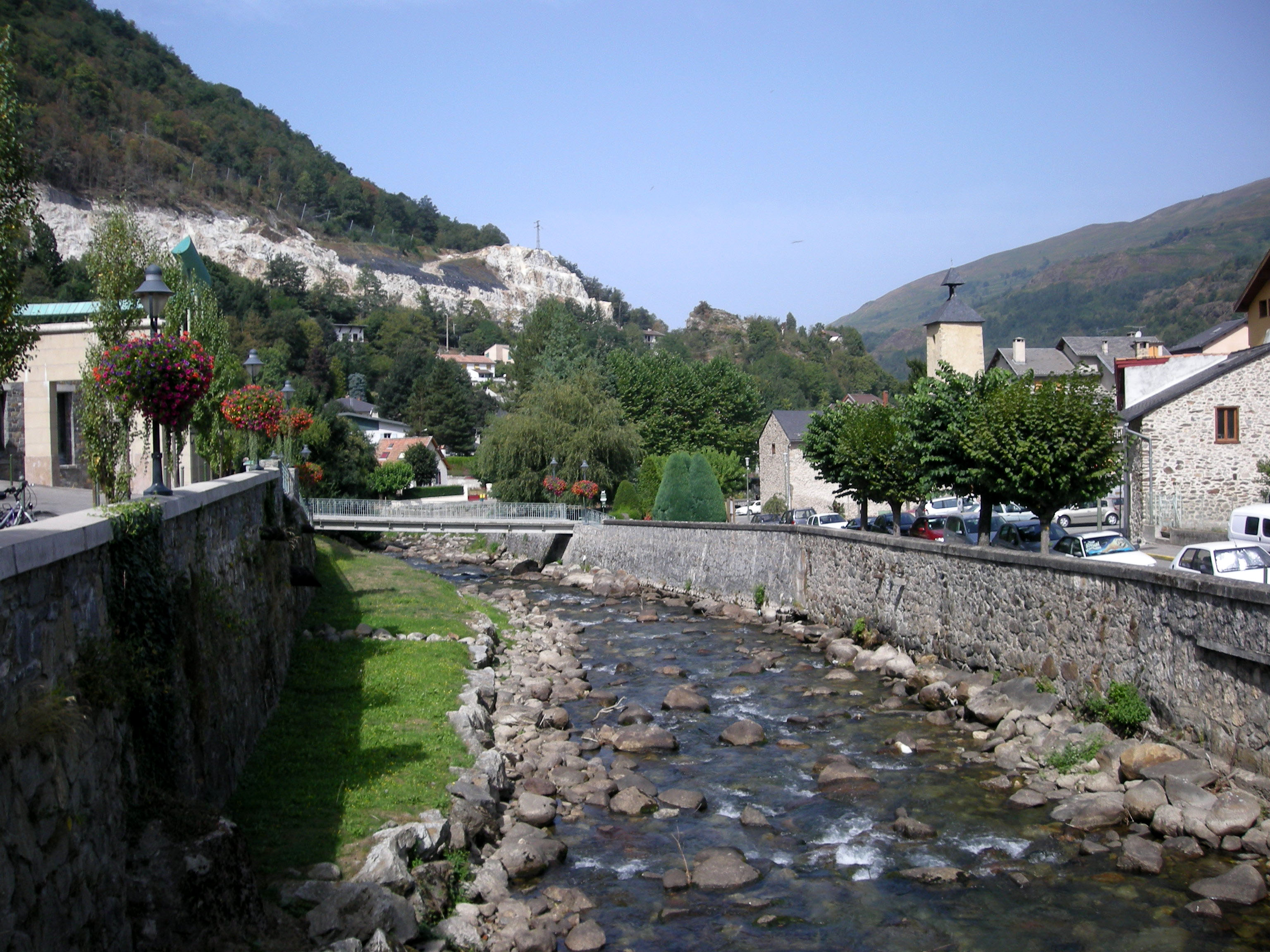 Oriège River in Ax-les-Thermes, Ariège, France.